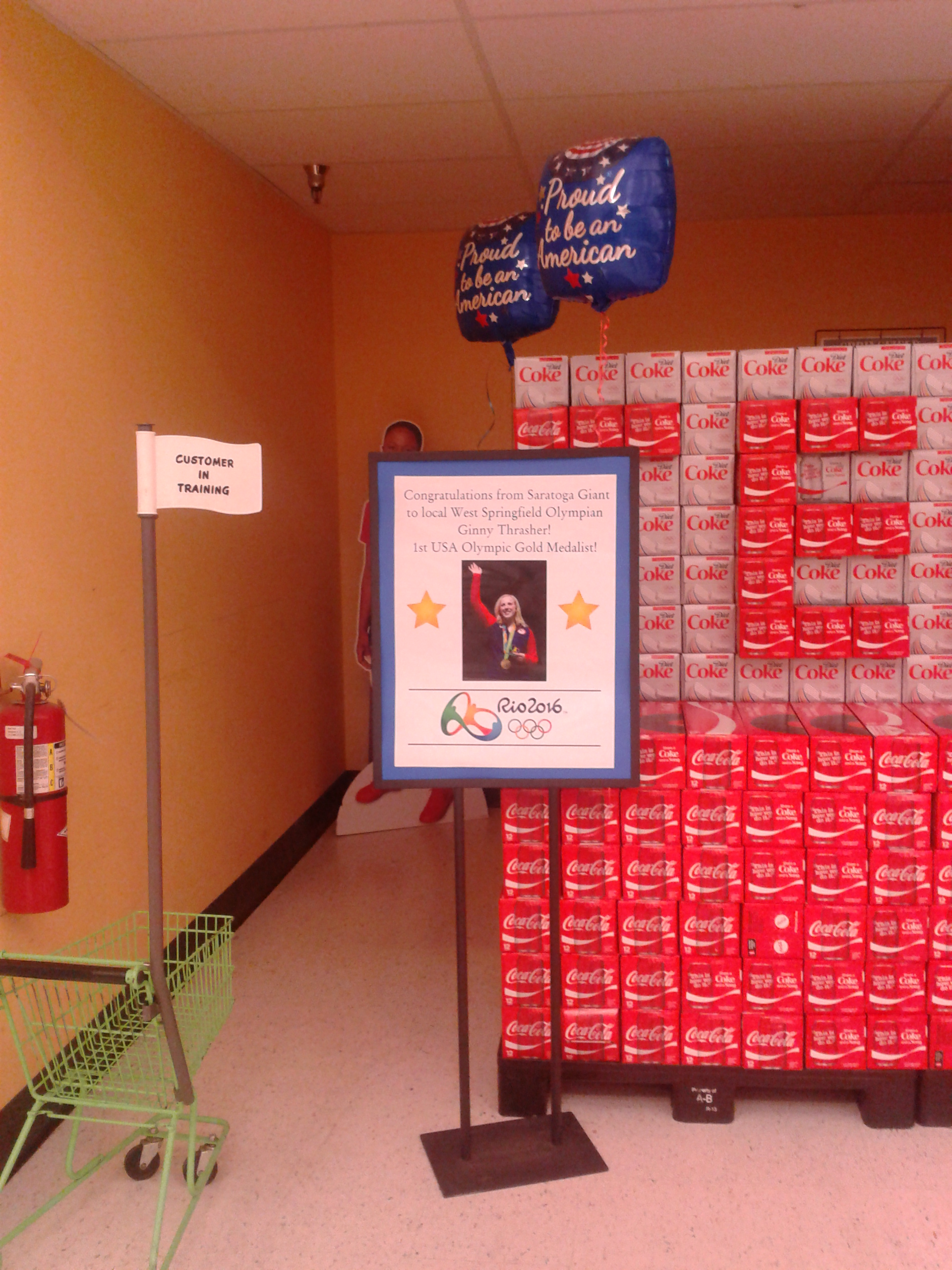 Sign at Giant in Springfield, Virginia congratulating Ginny Thrasher, graduate of West Springfield High School, on her gold medal at the 2016 Summer Olympics.